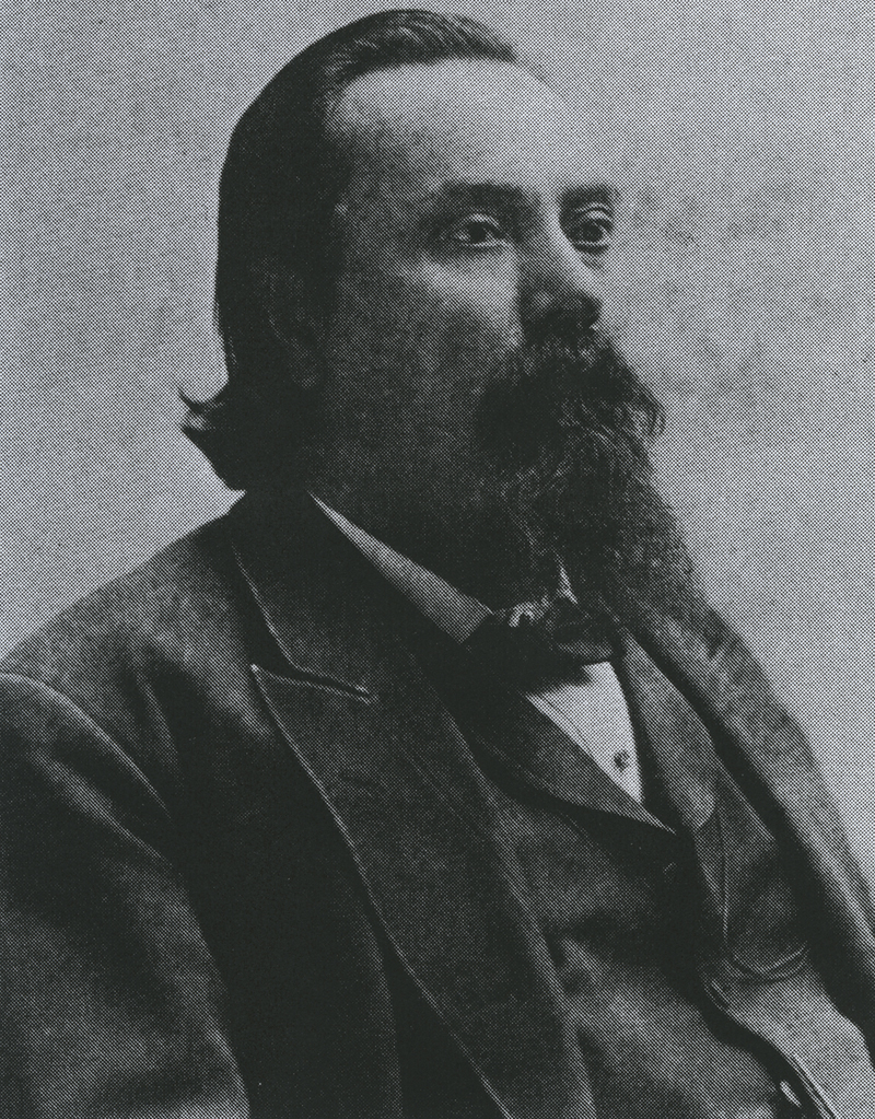 Image of Col. George W. Harkins son of Willis John Harkins and Salina Folsom, nephew of Choctaw Chief George W. Harkins. Note: Caption is incorrect.